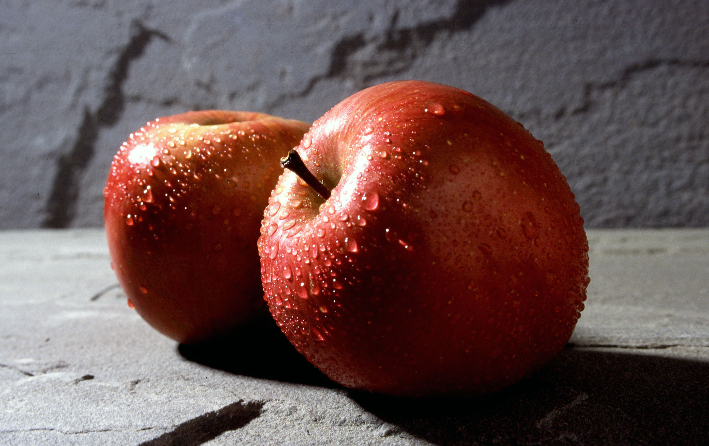 Two Fuji apples. In 1992, Washington apple growers harvested about 805,000 boxes of Fujis. Three years later, production had quadrupled to 3.5 million boxes.